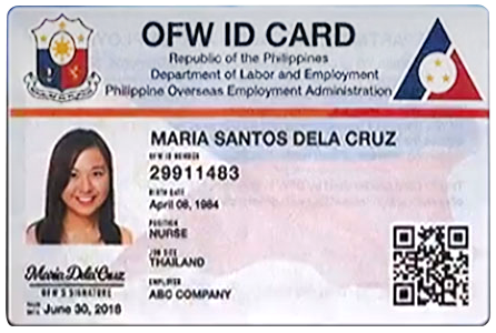 Official sample of the Overseas Filipino Worker (OFW) ID Card provided by the Philippine Overseas Employment Administration (POEA) / Department of Labor and Employment (DOLE).